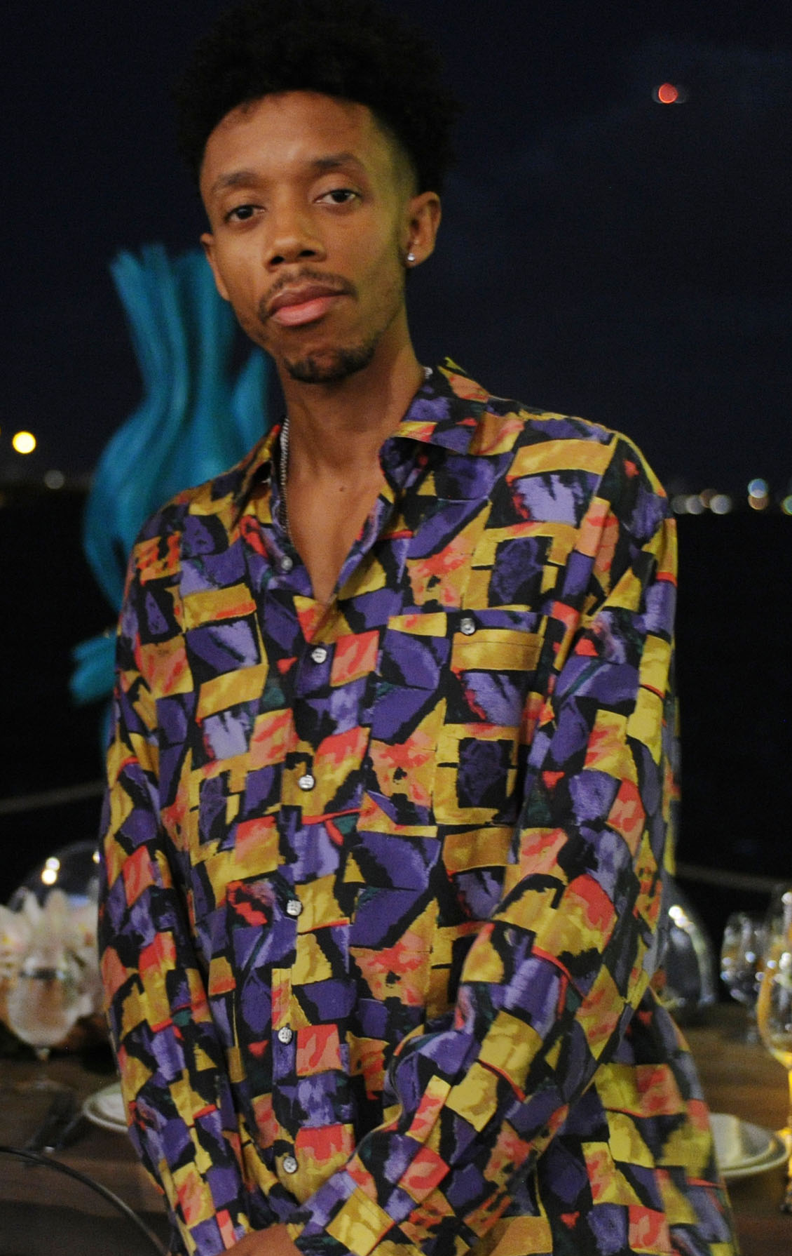 Aml Ameen & Darrell Britt-Gibson at the Miami International Film Festival GEMS presentation of "Soy Nero"